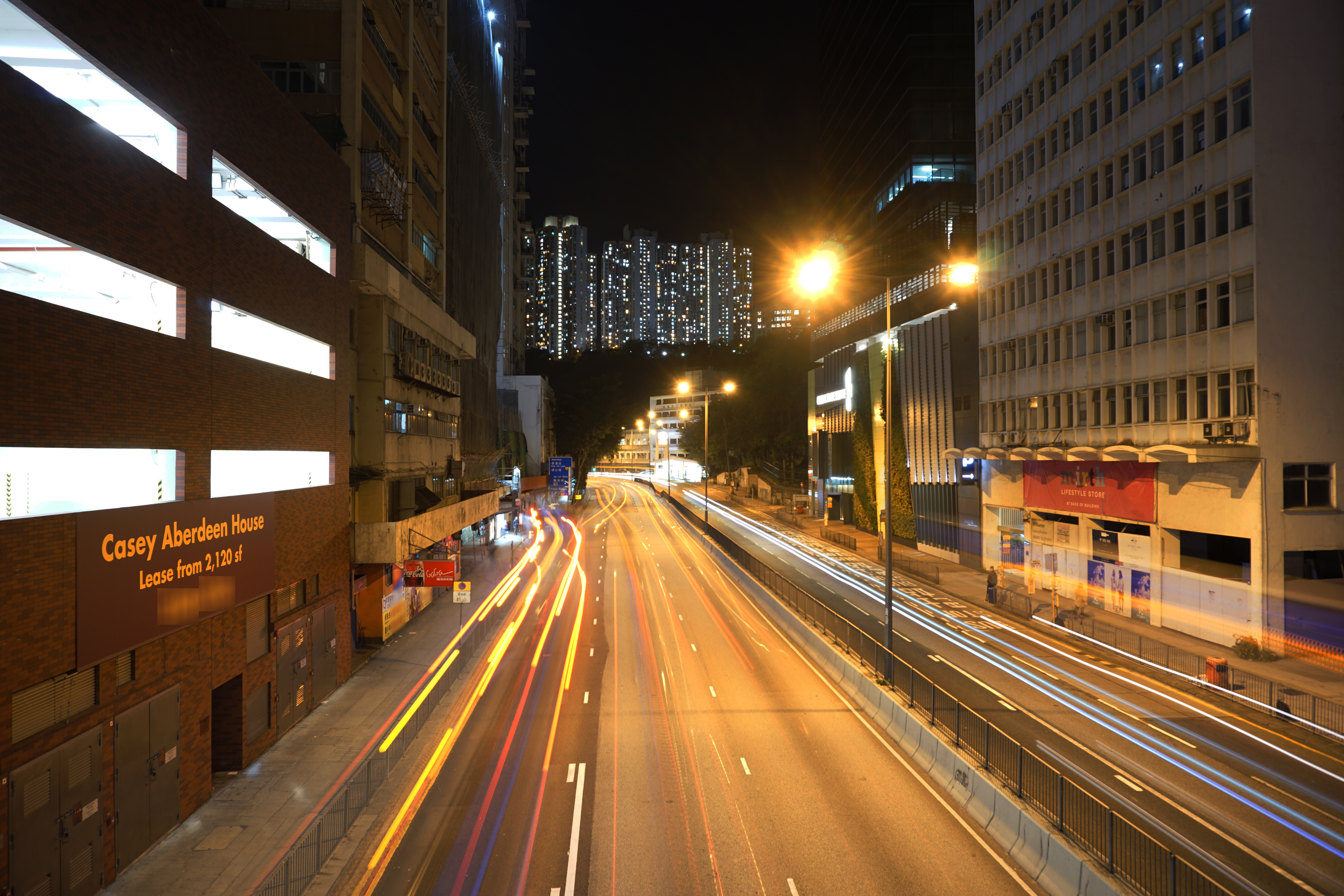 Wong Chuk Hang Road in Wong Chuk Hang, Hong Kong.